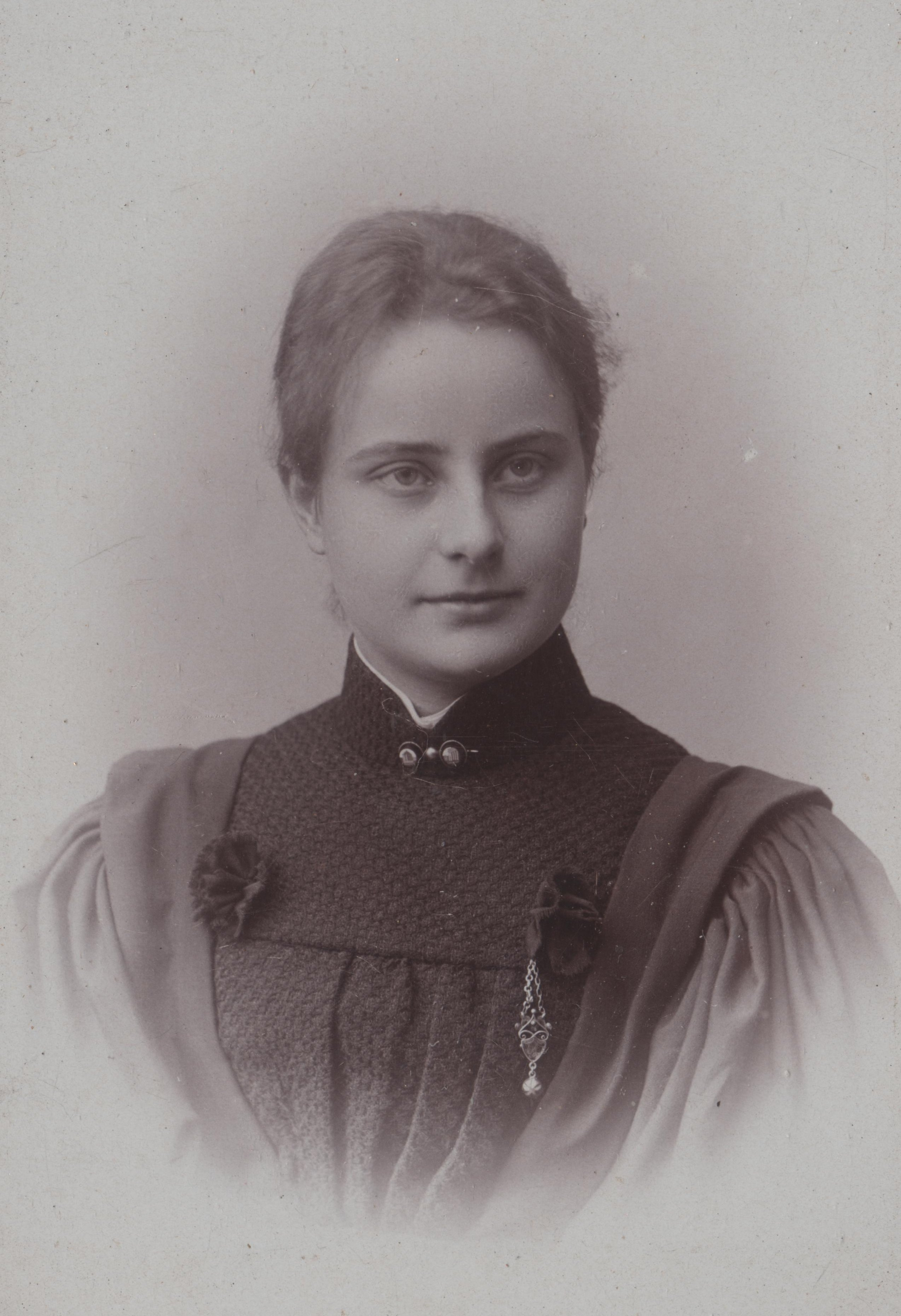 Johanne Agerskov, 1873-1946, danish medium, mediator of the book, Toward the Light!, published in Copenhagen in 1920.